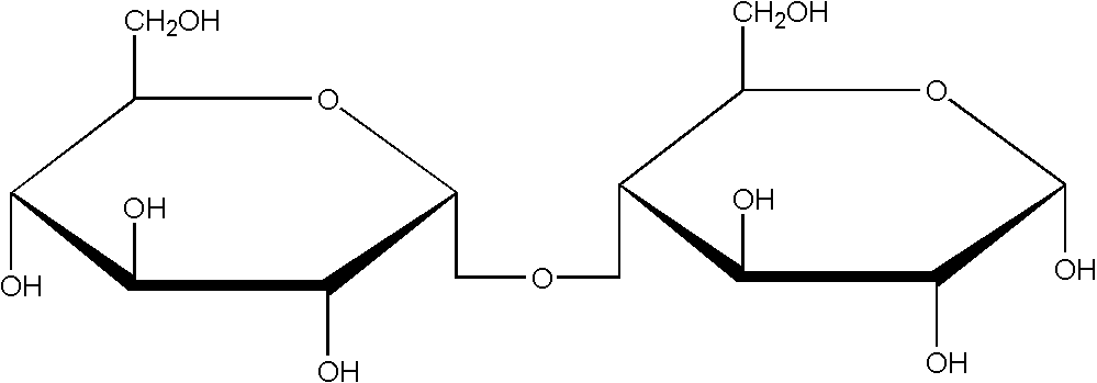 Structure of maltose